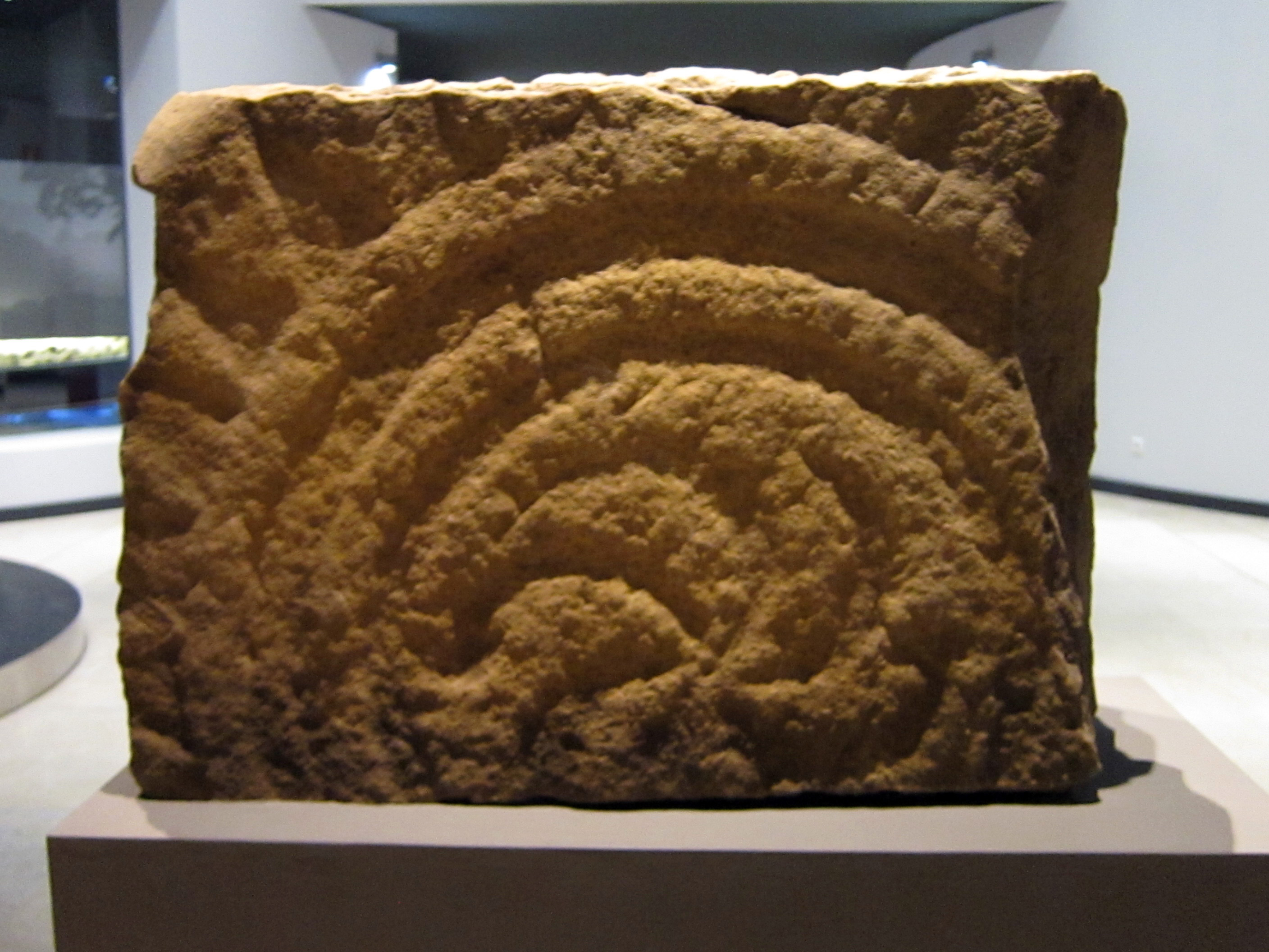 Museum of Prehistory and Archaeology of Cantabria. Reverse of the stele from San Vicente de Toranzo (Cantabria).